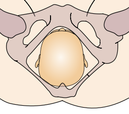 The left occipito-anterior variant of cephalic presentation